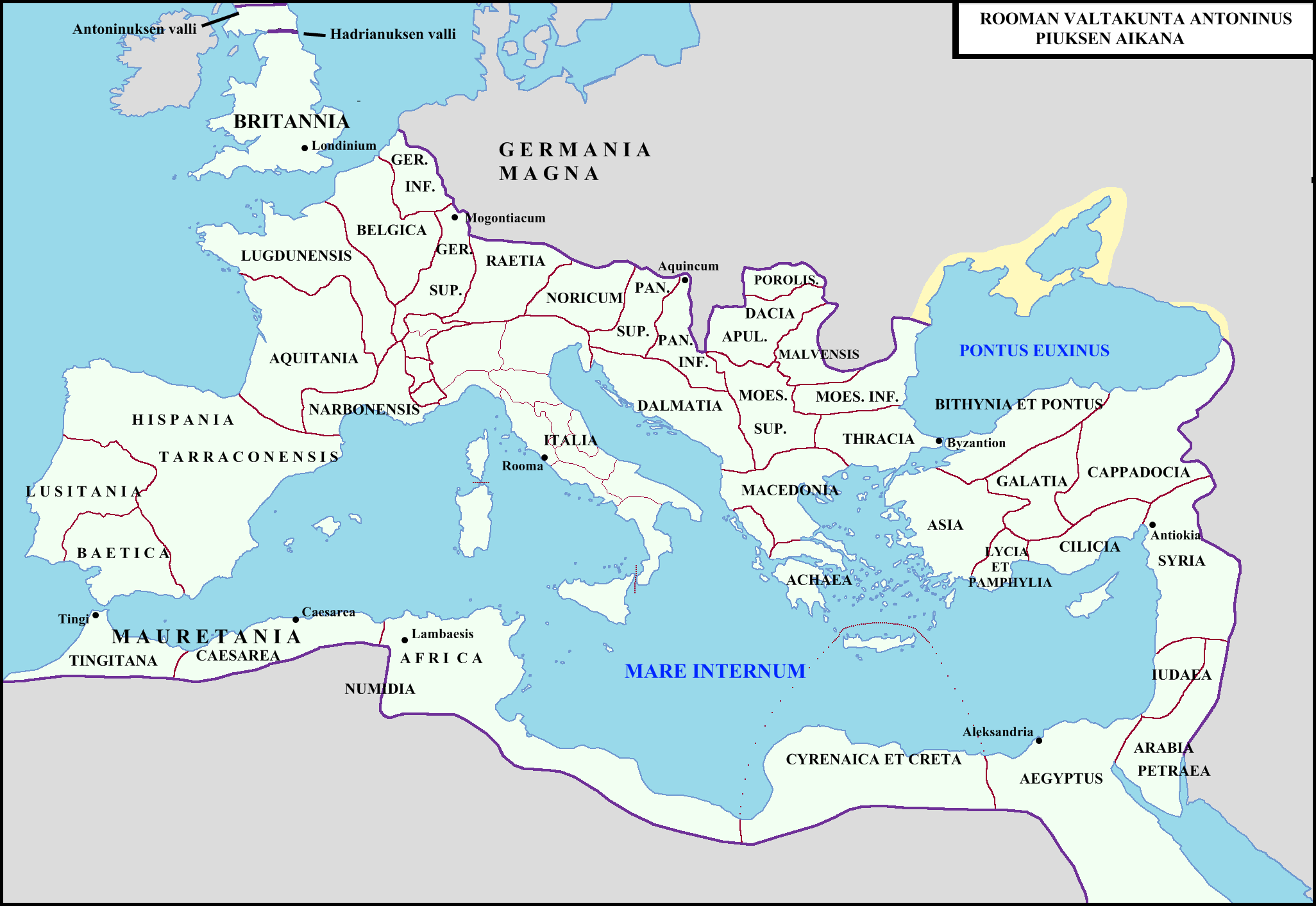 Roman Empire during Emperor Antoninus Pius (138-161 AD).